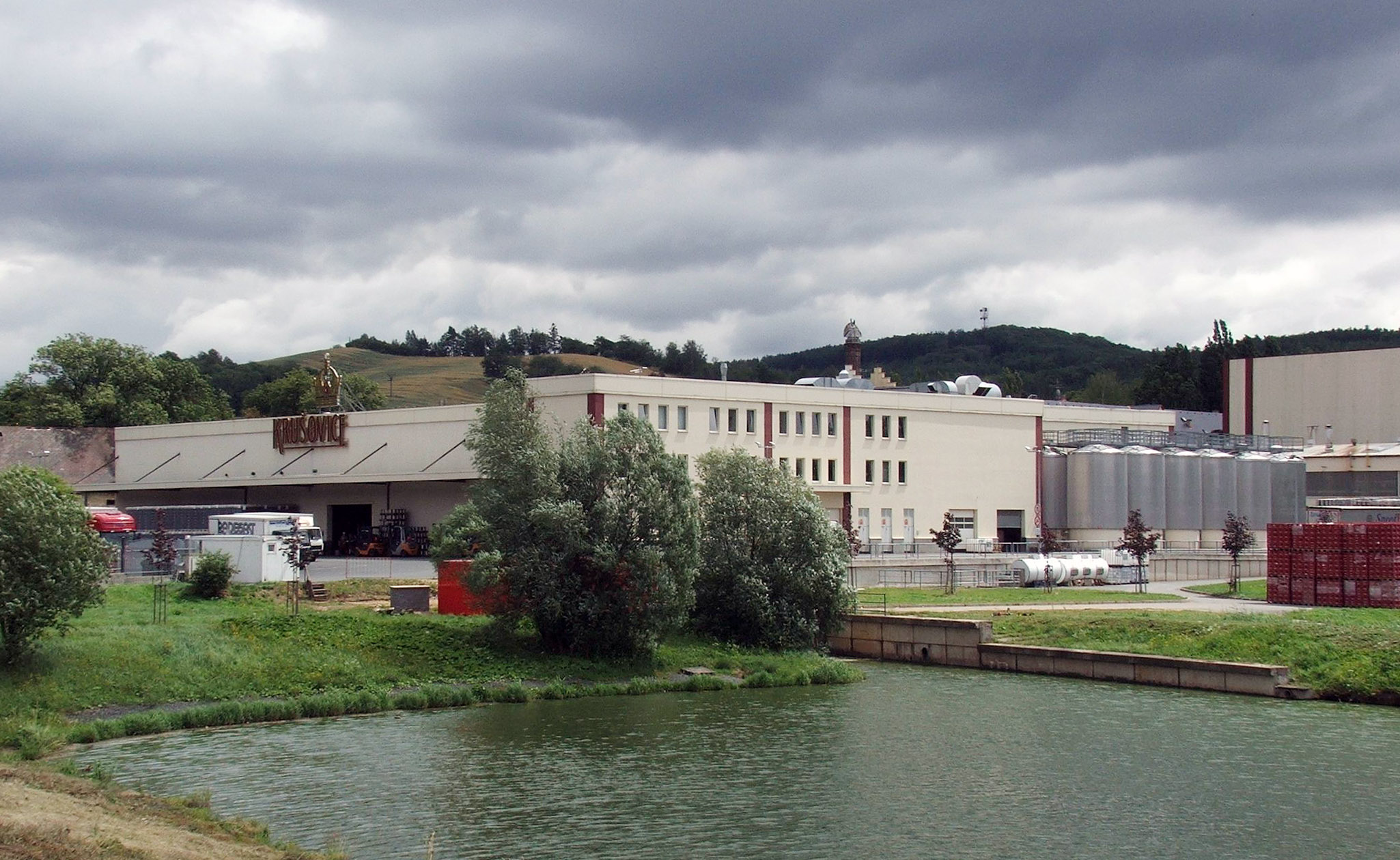 Krušovice Brewery in Krušovice, Central Bohemian Region, Czechia, july 2007